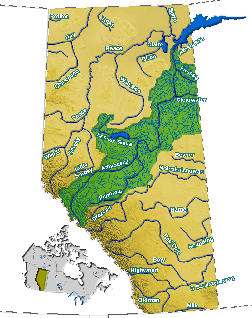 Athebasca River Basin in Alberta, Canada